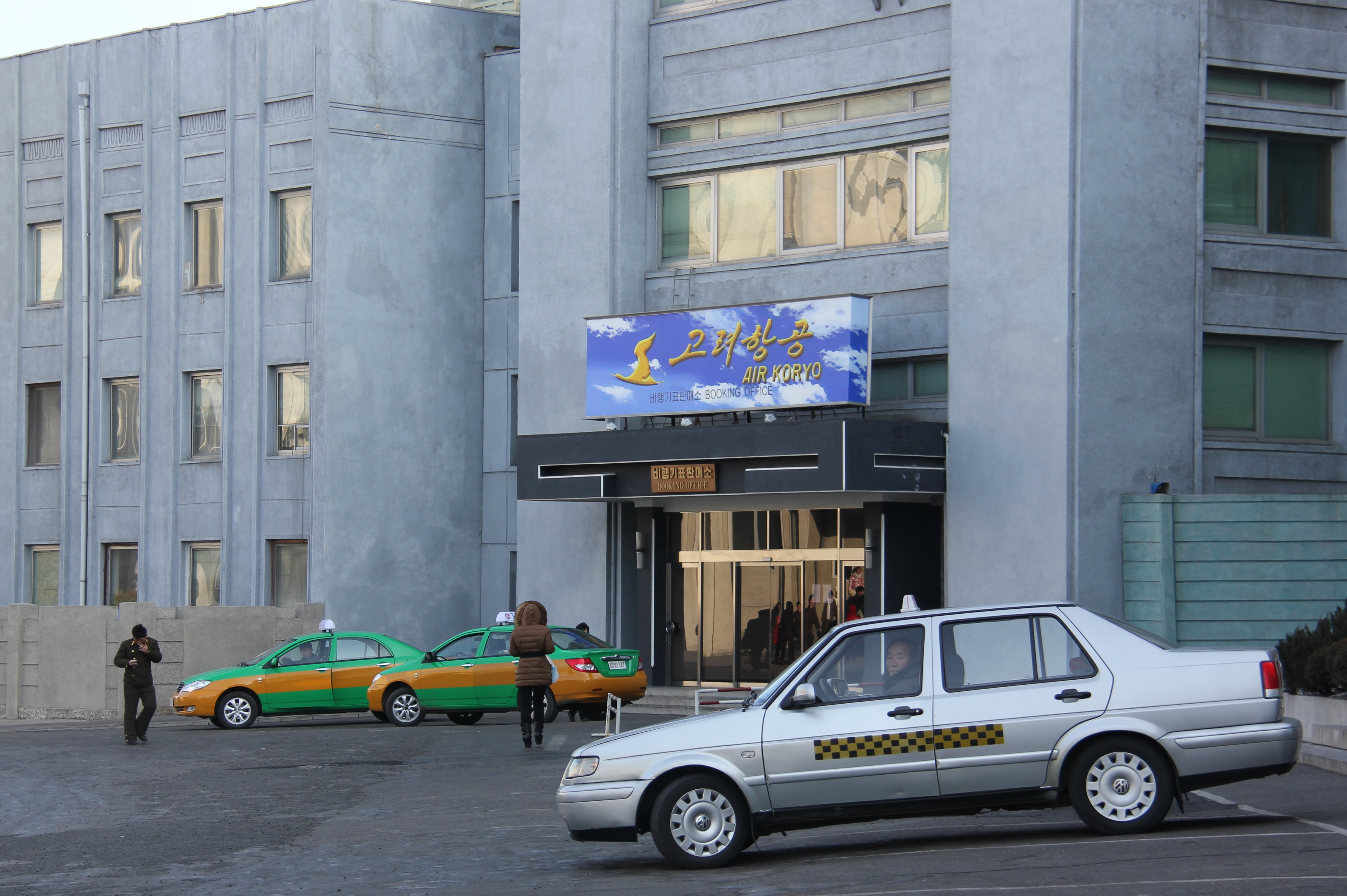 This is near the Paradise Department Store/Restaurant.